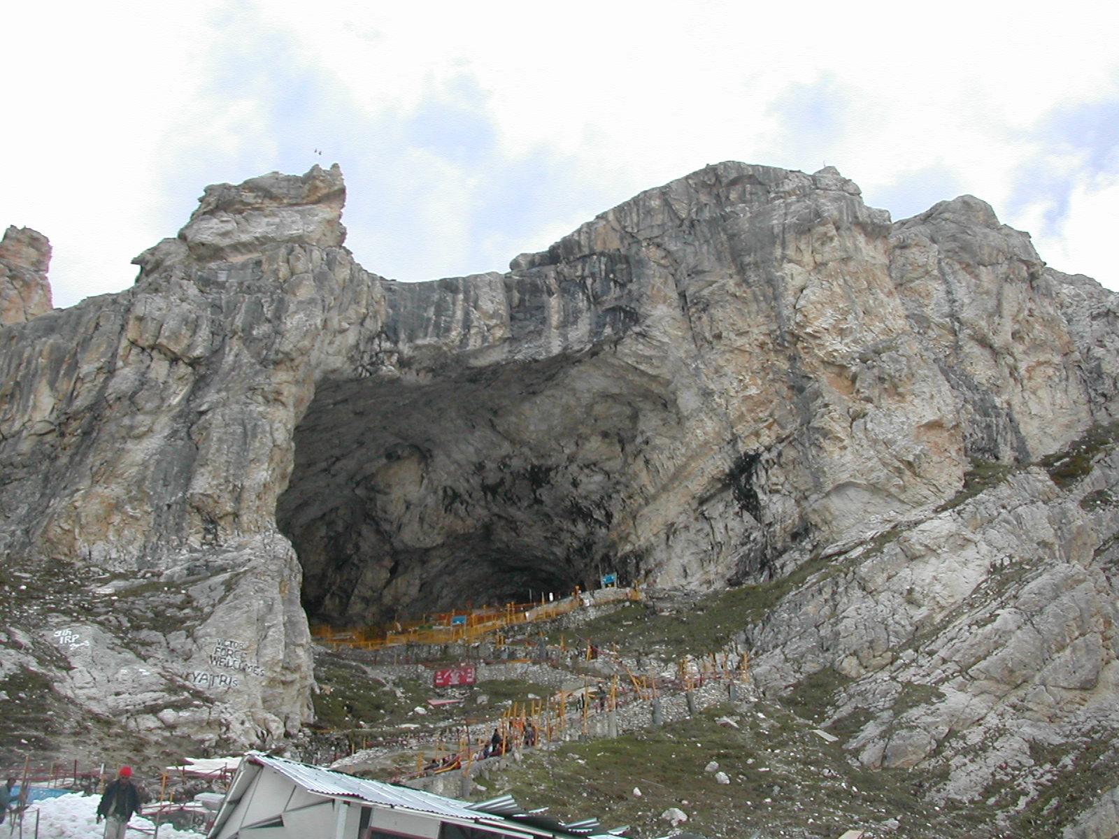 Cave Temple of Lord Amarnath.